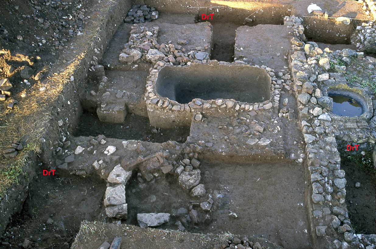 View of the excavation situation on Cerro da Vila (Vilamoura, Portugal), with the remains of several building structures and basins.